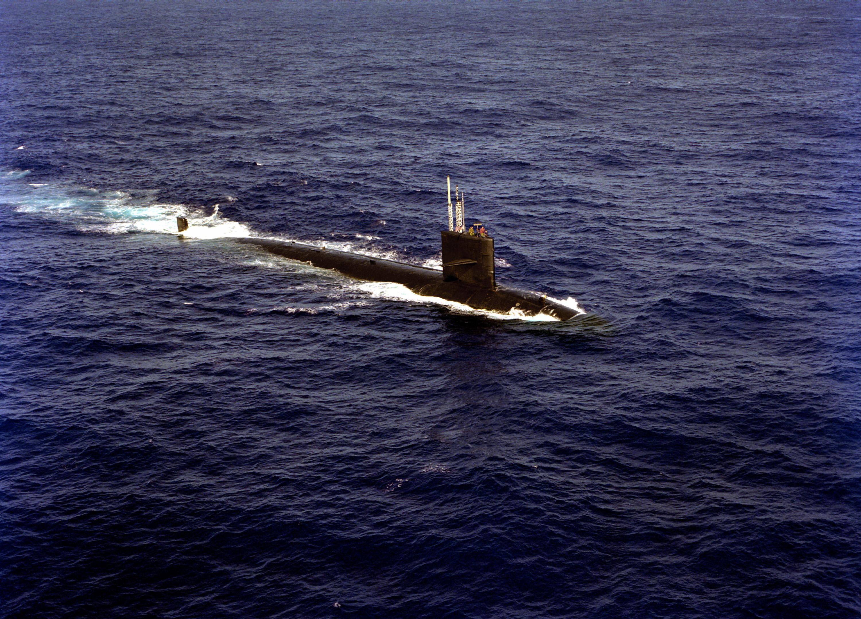 A starboard bow view of the nuclear-powered attack submarine USS SEAHORSE (SSN-669) underway. The SEAHORSE is en route to the Mediterranean Sea as part of the aircraft carrier USS JOHN F. KENNEDY (CV-67) battle group.